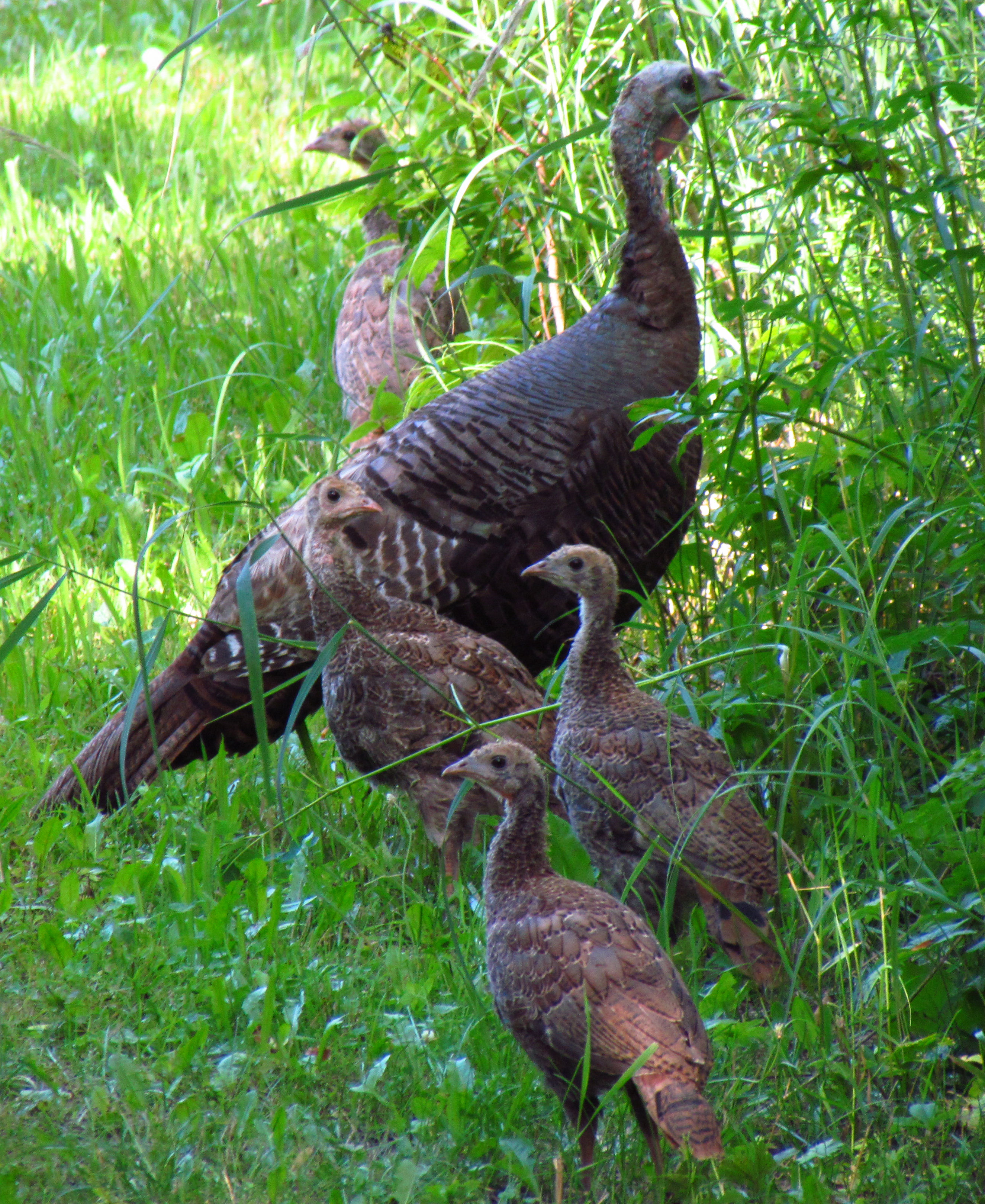 Wild Turkeys (Meleagris gallopavo), female with juveniles, Fort St. Joseph National Historic Site, Jocelyn, Ontario, Canada